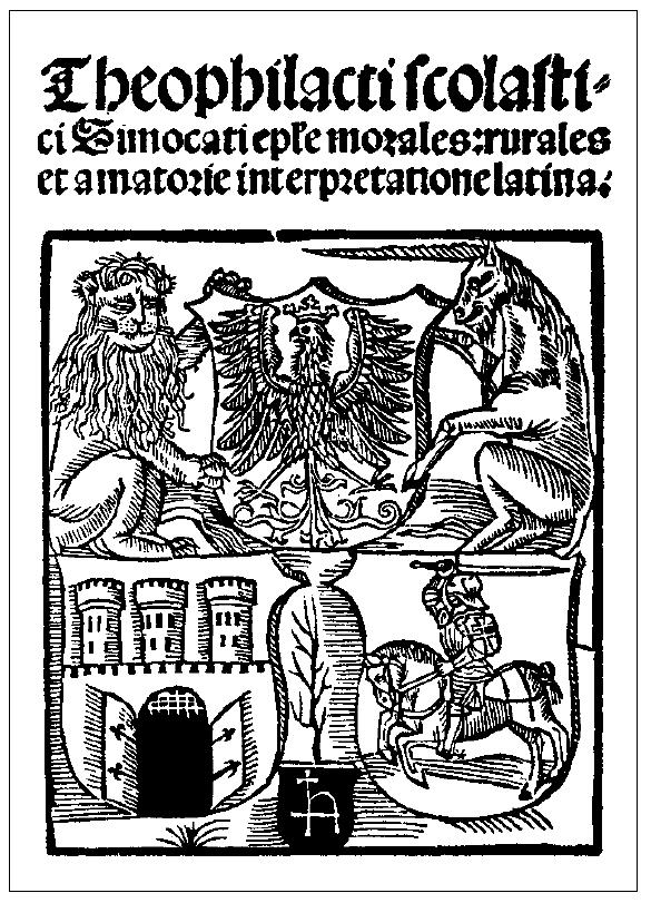 Theophilacti Scolastici Simocatti ep(isto)le morales, rurales et amatorie interpretatione latina. This translation of Theophilact's Greek poems into Latin is the only work Nicolaus Copernicus published himself. With the help of Lorenz Rabe, it was printed by Johann Haller in Cracow. The work is dedicated to his uncle, bishop Lucas Watzenrode: "Ad reverendissimum d(omin)um Lucam episcopum warmiensem Nicolai coppernici epistola." According to the German edition of "de revolutionibus"[1], the spelling Coppernicus is used in the original, while the Polish edition of "de revolutionibus"[2] prints it with a single p only.